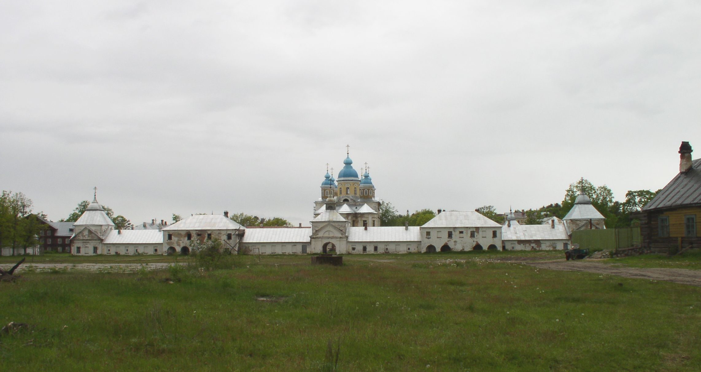 The Konevsky monastery from the east